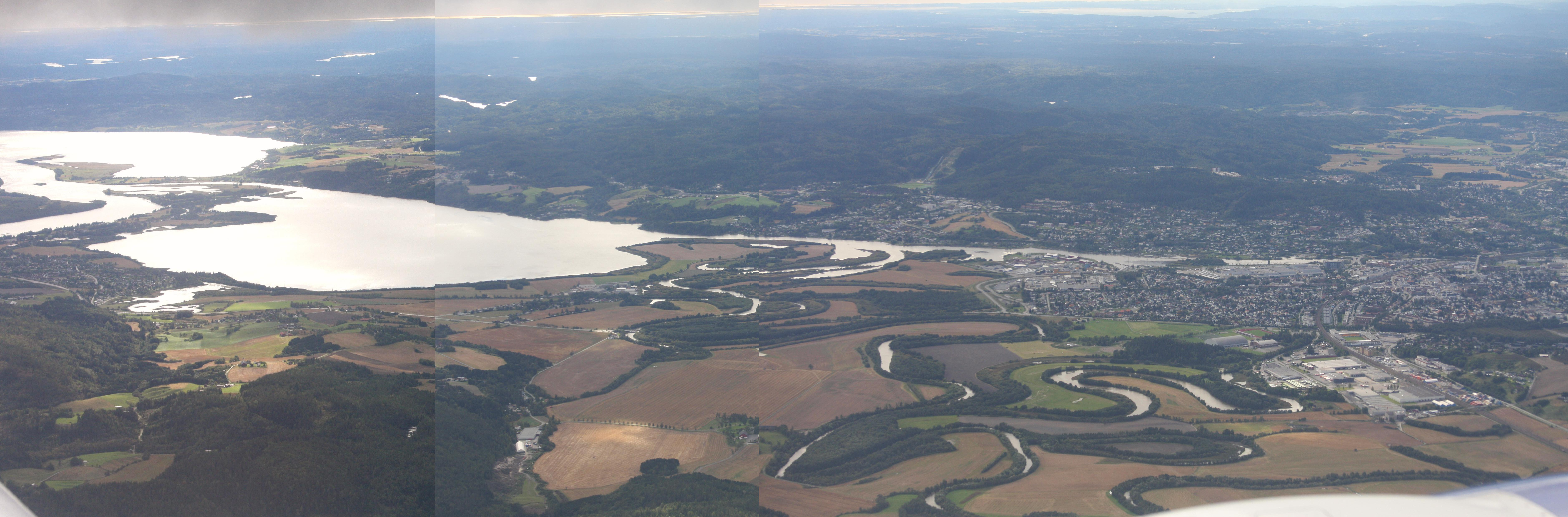 Nordre Öyeren Nature Reserve and Ramsar Area, in the county of Akershus, Norway. The meandering estuary and the left-center lakes constitute the reserve.